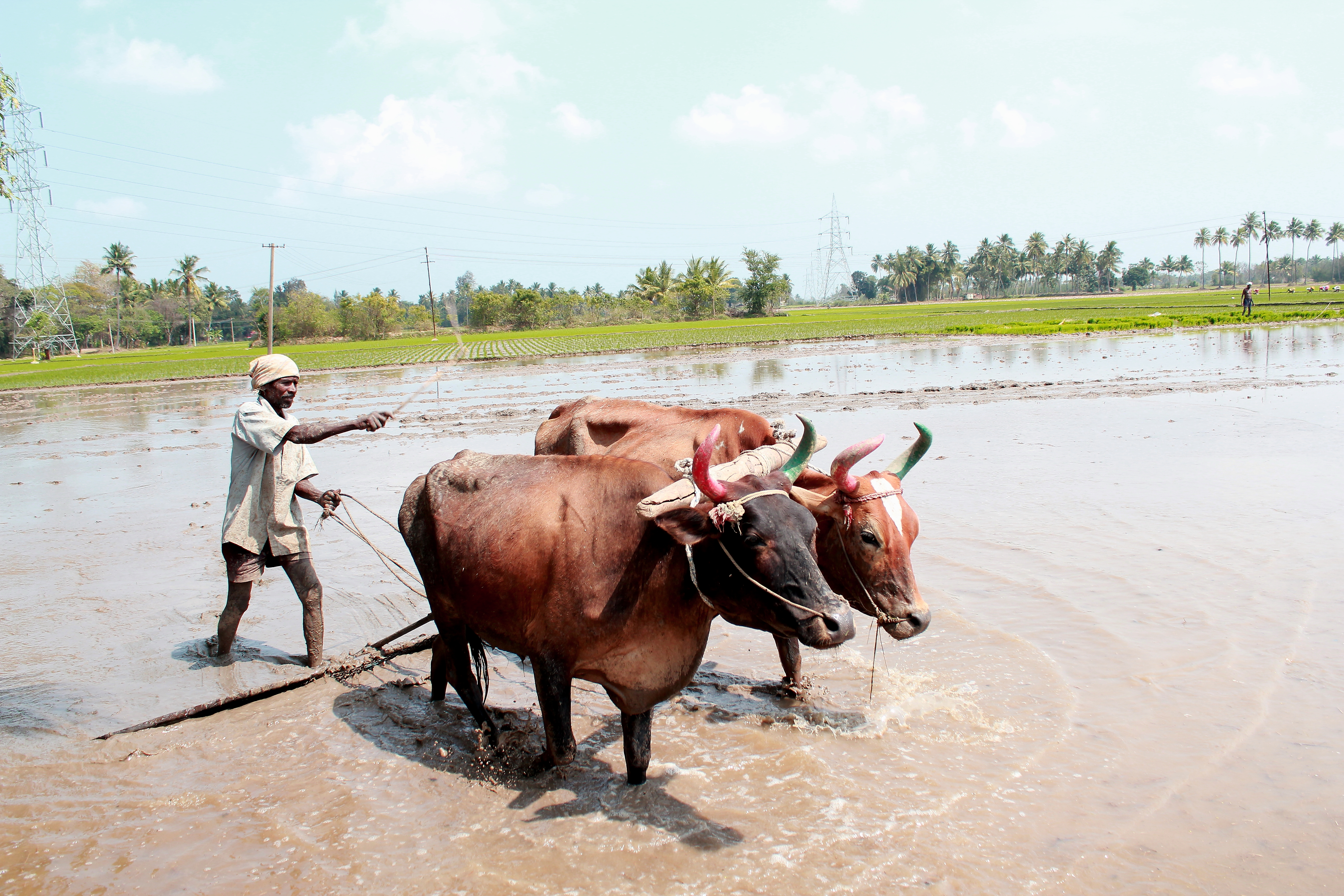 A farmer working in his rice field, Tamil Nadu, India